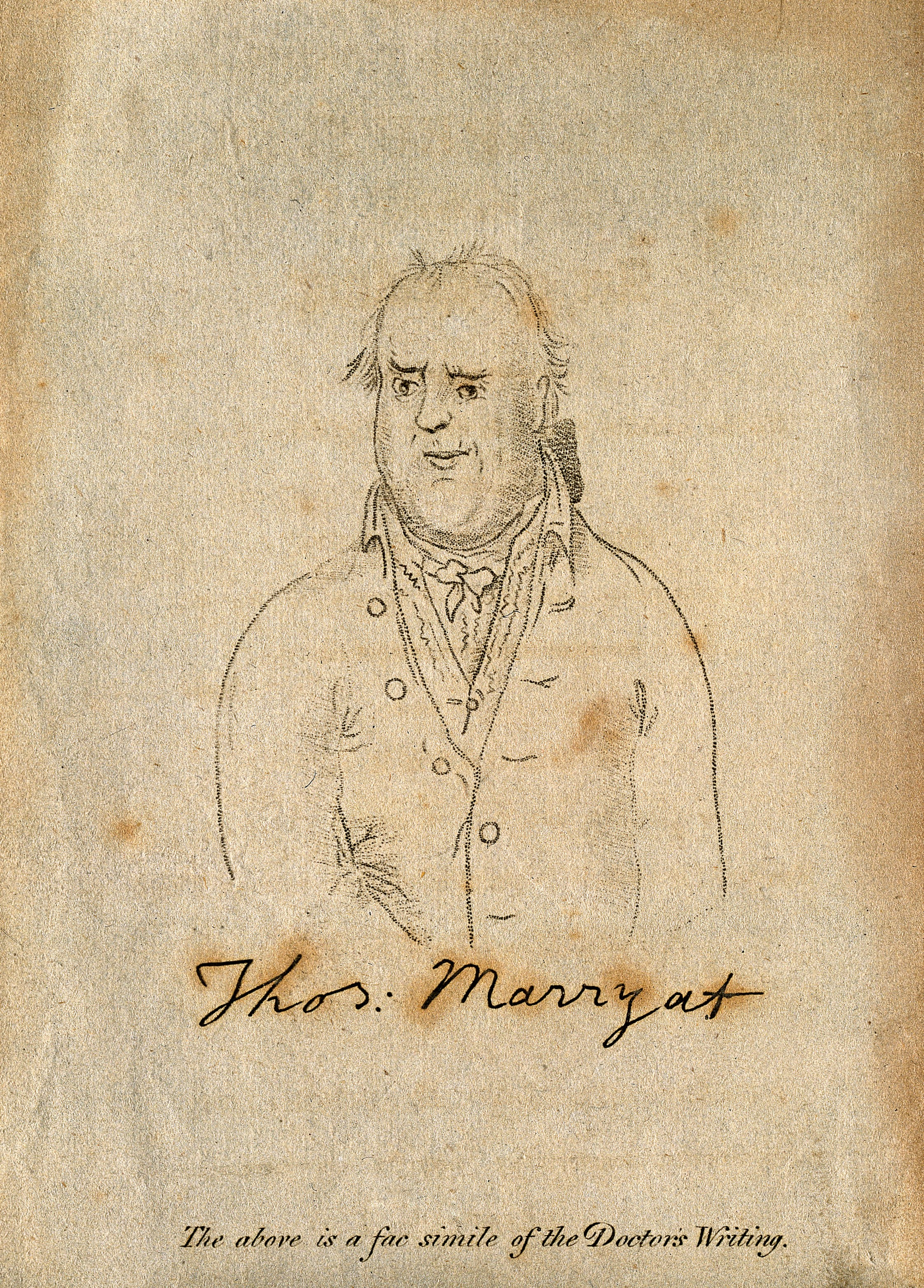 Thomas Marryat. Stipple engraving by Johnson, 1805. Iconographic Collections Keywords: portrait prints; Thomas Marryat; stipple prints